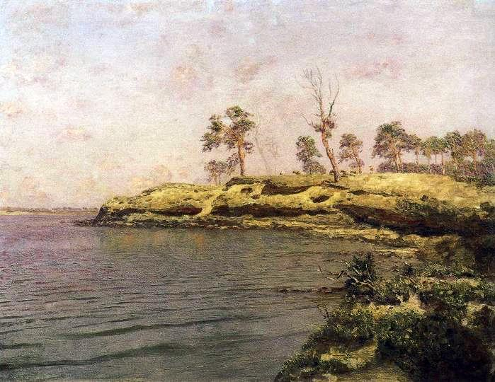 Brittany. Dunes. 1898. Oil on canvas. ??